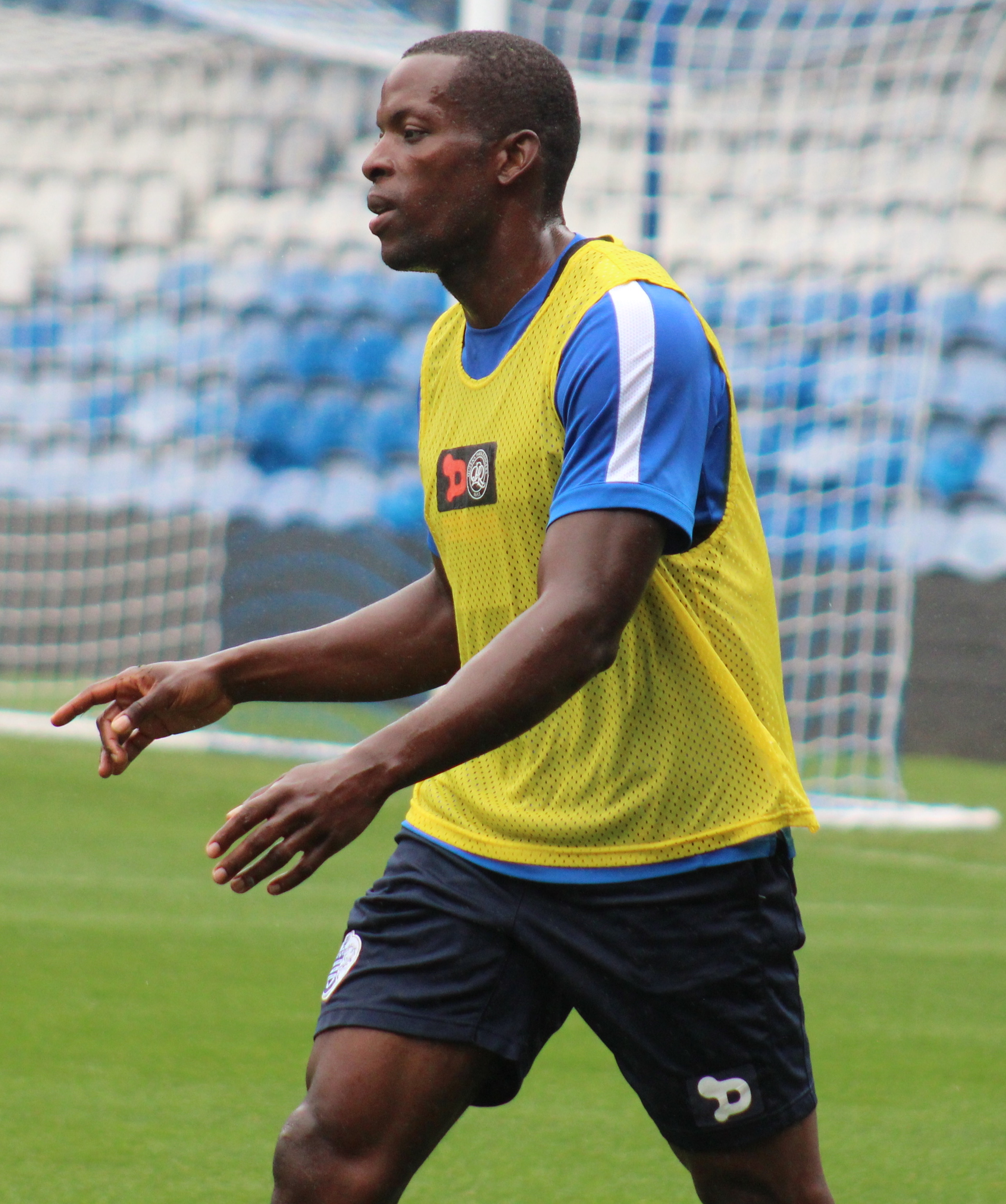 Onuoha at QPR open training session 2016